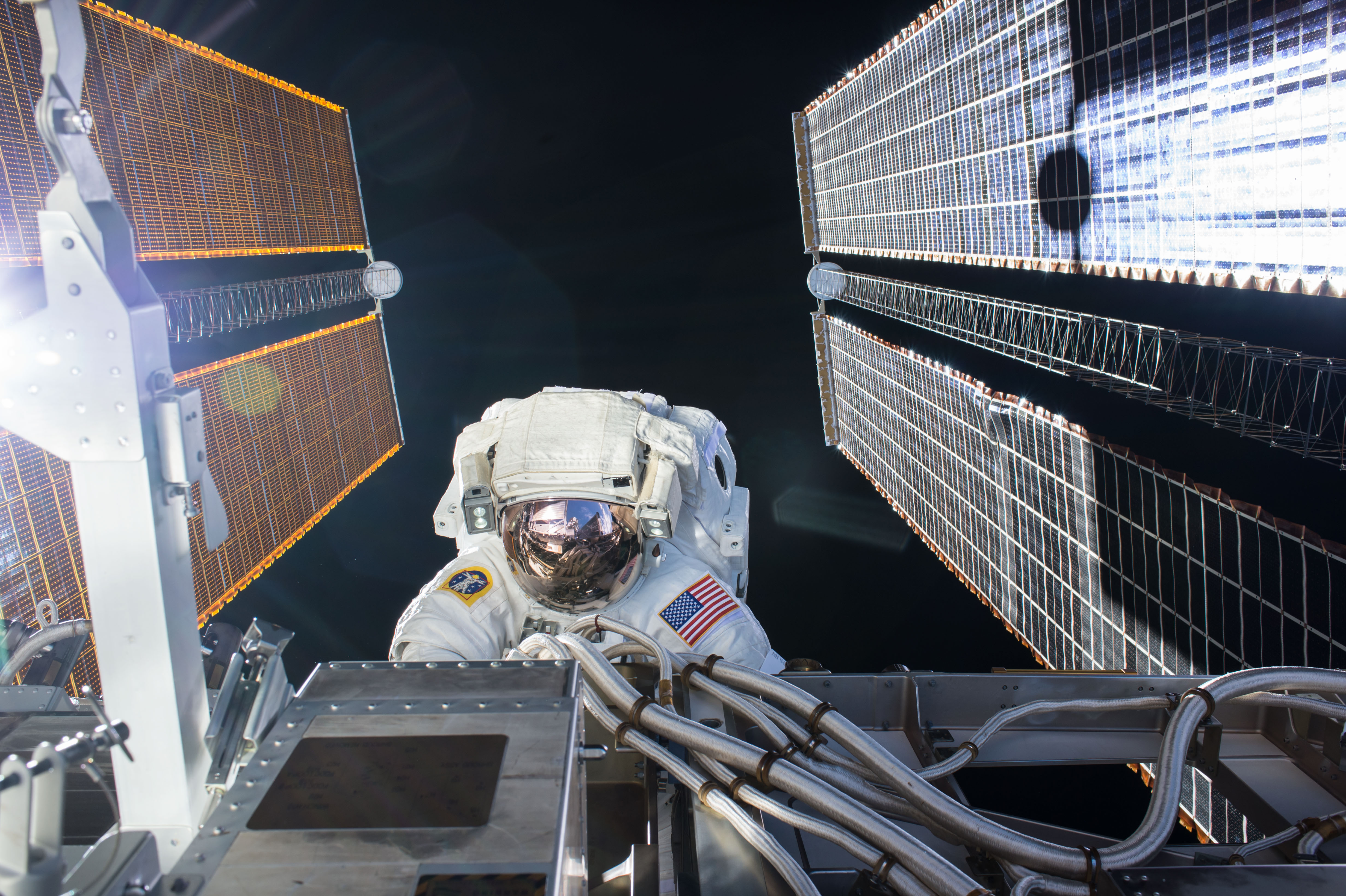 Expedition 48 Commander Jeff Williams and Flight Engineer Kate Rubins (pictured) of NASA conducted a six-hour and 48-minute spacewalk on Sept. 1, 2016. The pair successfully retracted a thermal radiator, installed two enhanced high definition cameras on the station’s truss and tightened bolts on a joint that enables one of the station’s solar arrays to rotate. The spacewalk was the second for Williams and Rubins in just 13 days, the fifth of Williams’ career and the second for Rubins.